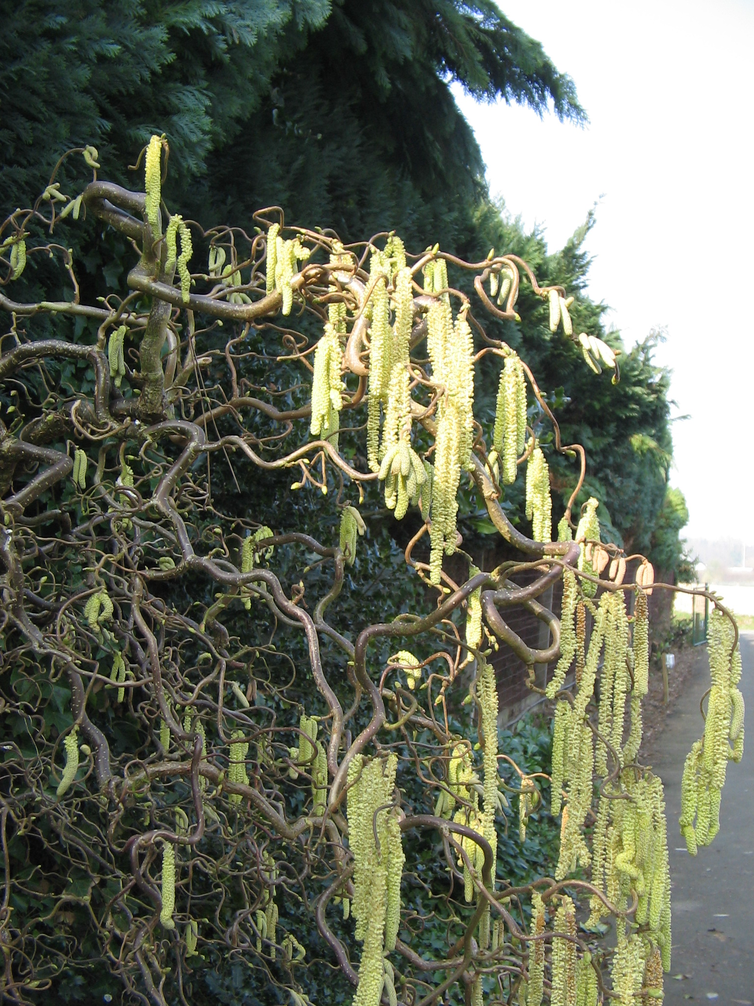 Corylus avellana 'Contorta'